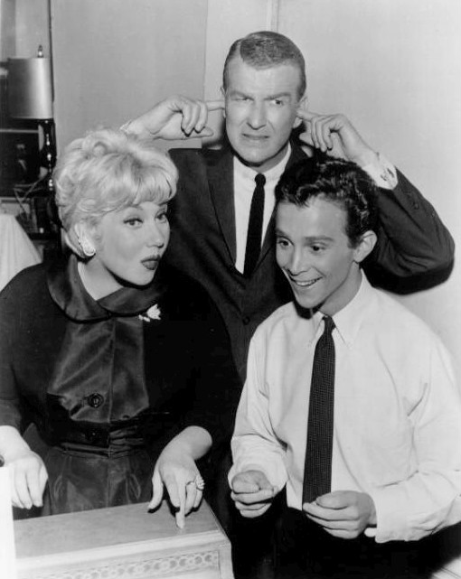 Photo of Ann Sothern and Don Porter with guest star Joel Grey from the television program The Ann Sothern Show.